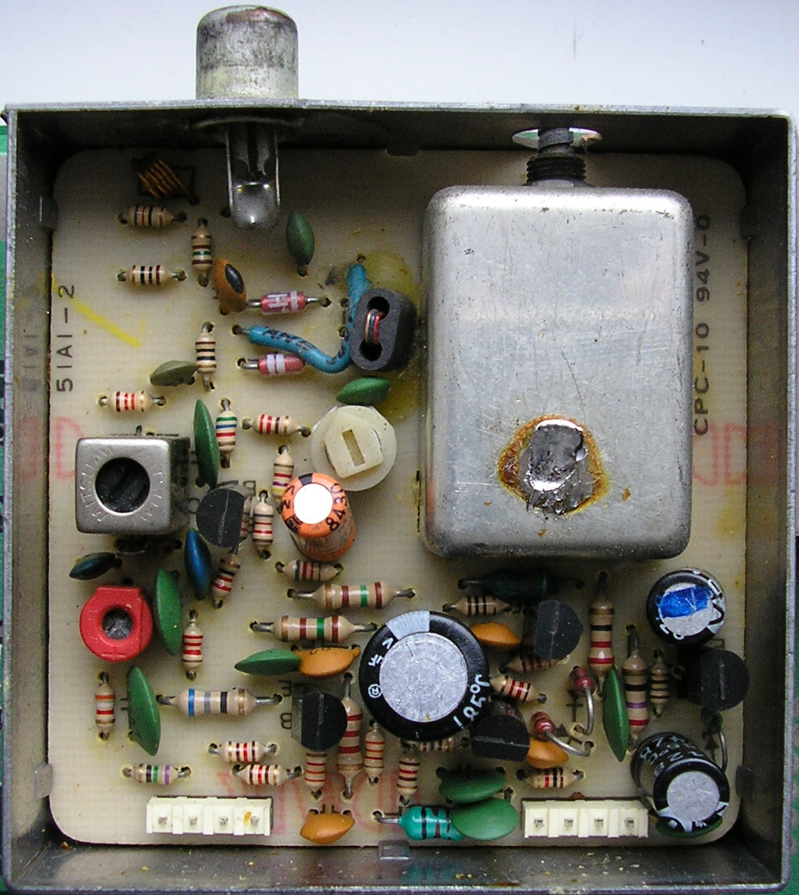 C64 opened RF modulator on the motherboard ASSY NO. 250427 PAL Manufactured 1984from Commodore 64 with serial number U.K.B1852150